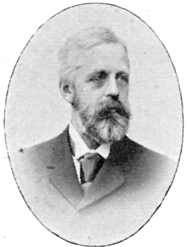 Image scanned from the book "Svenskt Porträttgalleri XX - Arkitekter, Bildhuggare, Målare m.fl. " ("Swedish Portrait Gallery XX - Architects, Sculptors, Painters, ") published 1901